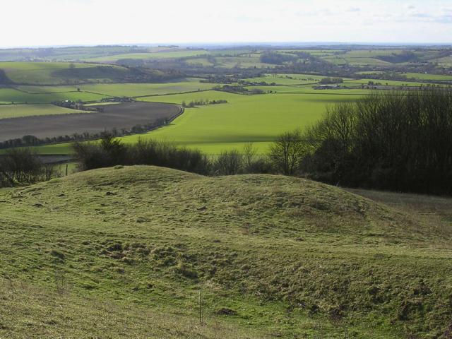 Double round barrow on Old Winchester Hill, looking down into the Meon Valley. The double barrow in the foreground is quite unusual, part of a barrow cemetery on the east facing slope of Old Winchester Hill just outside the eastern entrance to the iron-age hillfort.